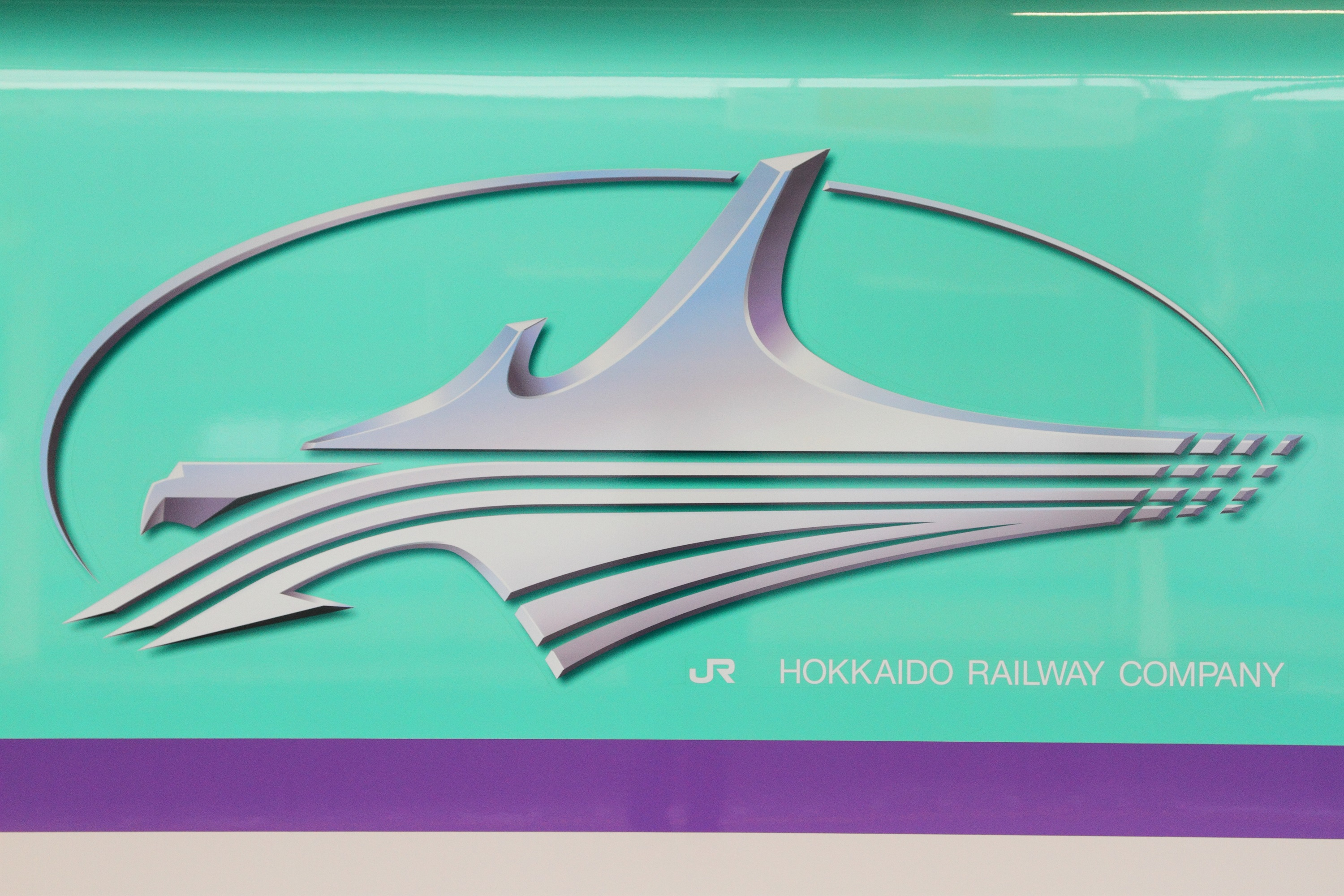 The logo on the side of a JR Hokkaido H5 series shinkansen set